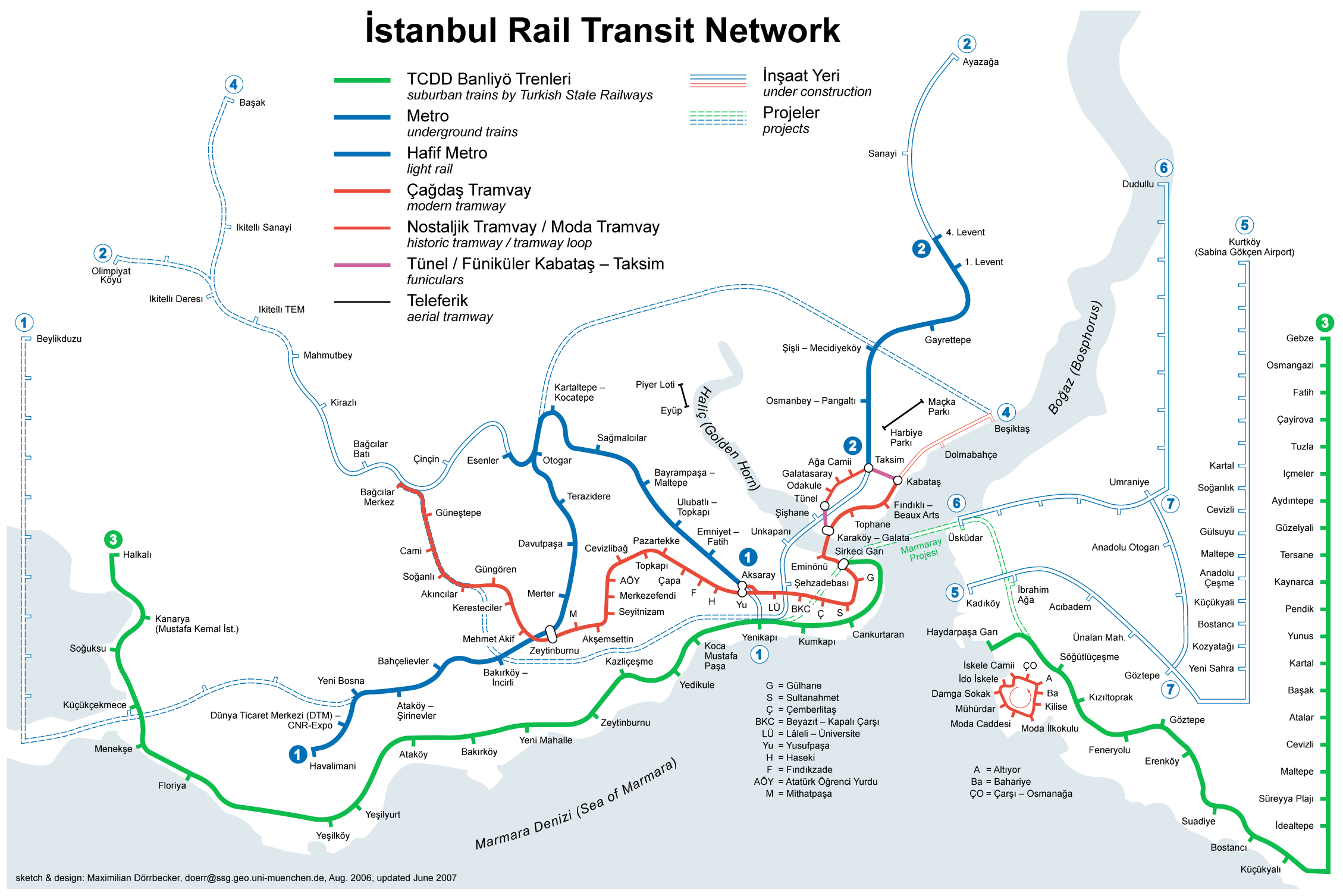 Istanbul Rail Transit Map (including rail projects)